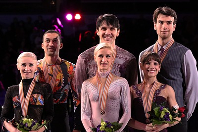 The pairs podium at the 2013 World Championships. From left: Aliona Savchenko / Robin Szolkowy (2nd), Tatiana Volosozhar / Maxim Trankov(1st), Meagan Duhamel / Eric Radford(3rd).